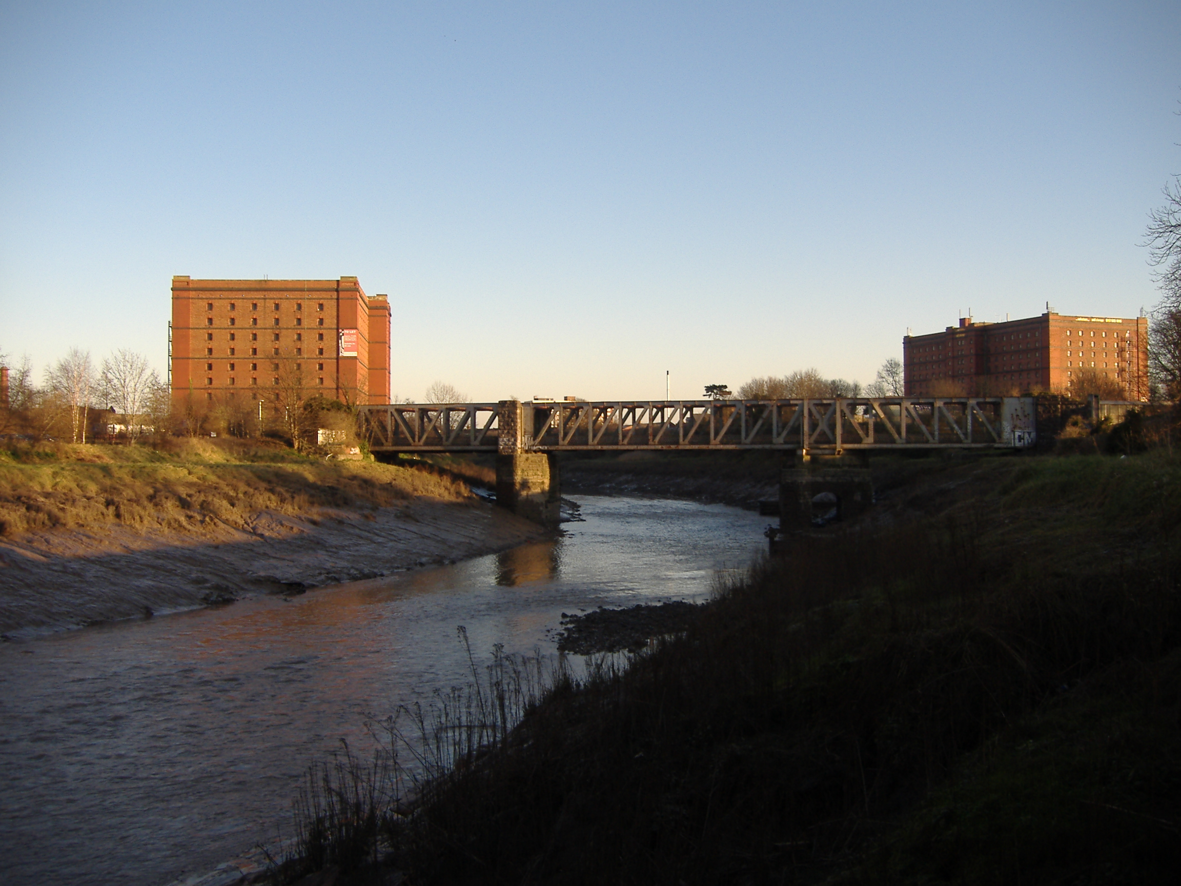 Ashton Avenue Bridge, and No. 1 Bond on the left.